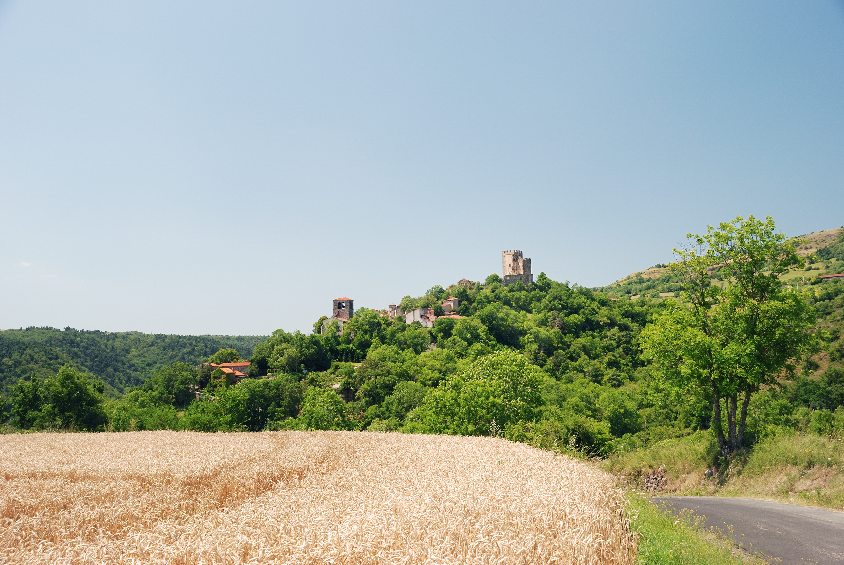 View of the village of Montaigut-le-Blanc (Puy-de-Dôme, France). Translations in other languages are welcome.